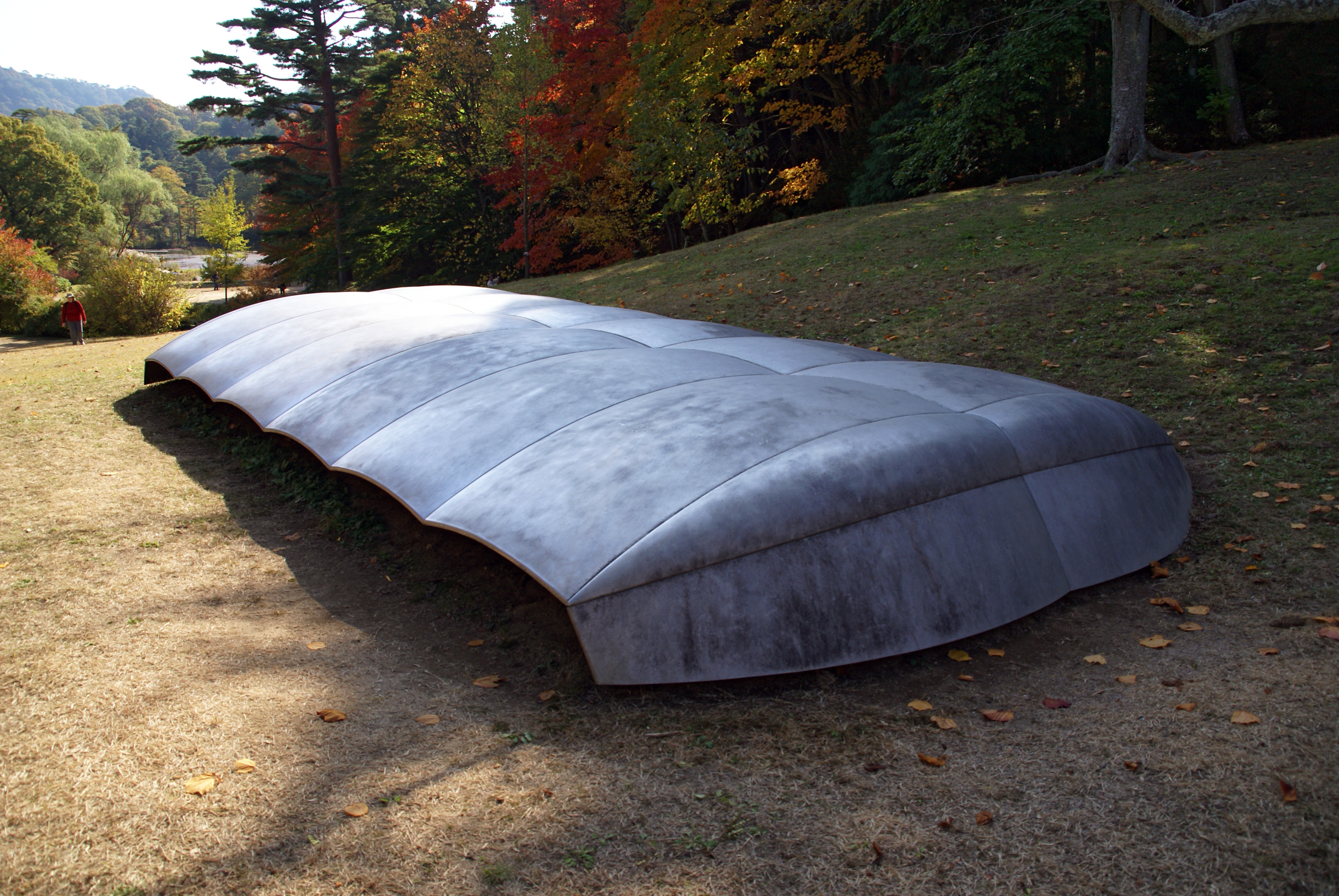 Kobe Municipal Forest Botanical Garden in Kobe, Hyogo prefecture, Japan